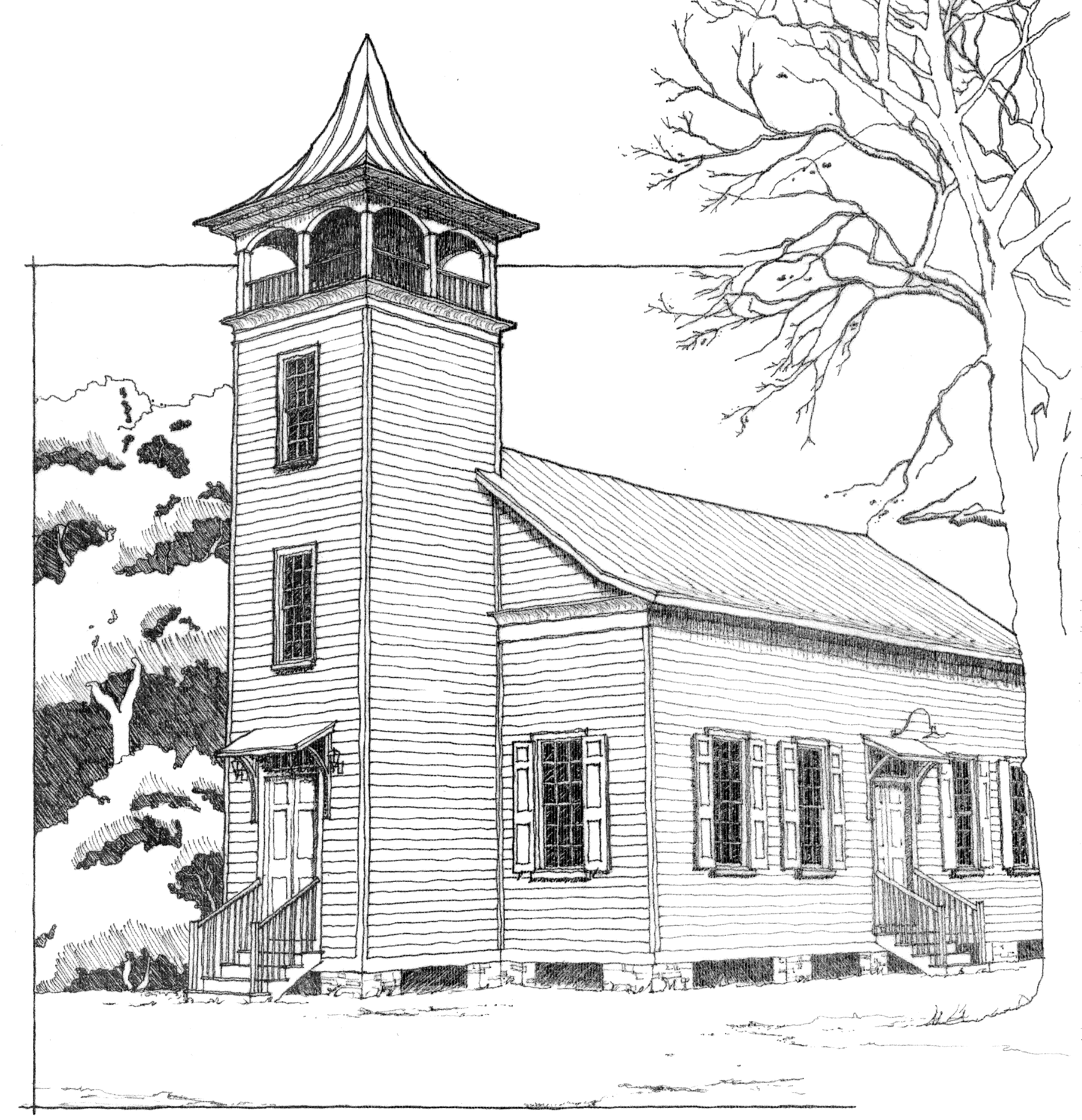 Pineville Chapel, part of Pineville Historic District in Berkeley County, South Carolina.